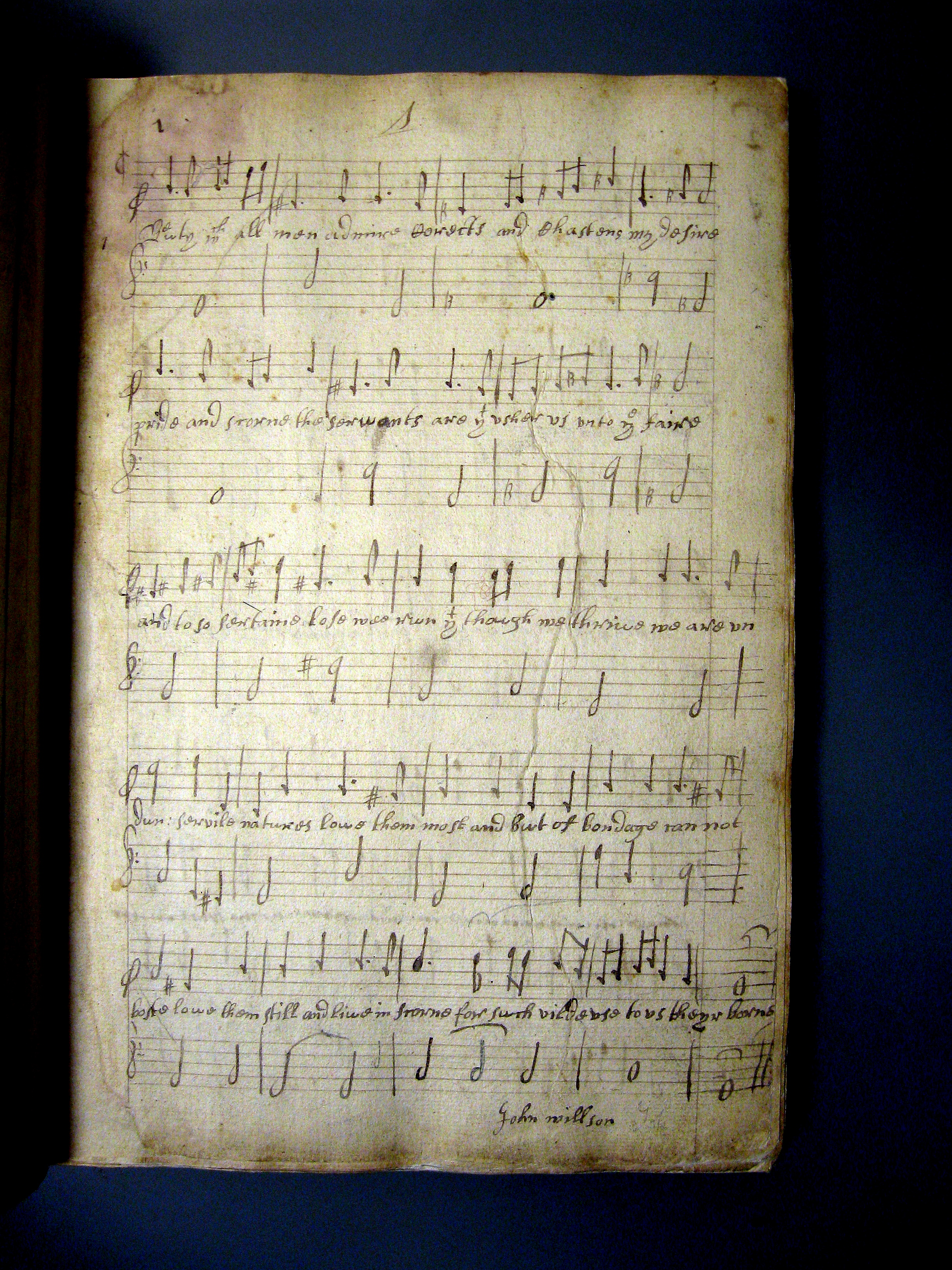 The song "Beauty which all men admire" on folio 3 recto from Drexel 4041, a music manuscript in the Music Division of the New York Public Library